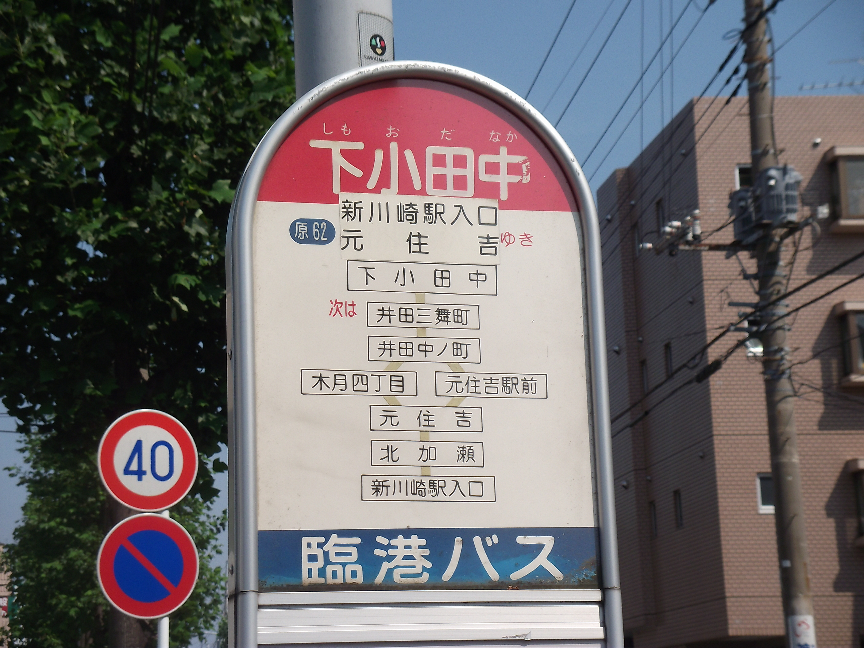 The name of this bus stop (Shimo-odanaka) is different from that of the town (Shimo-kodanaka).